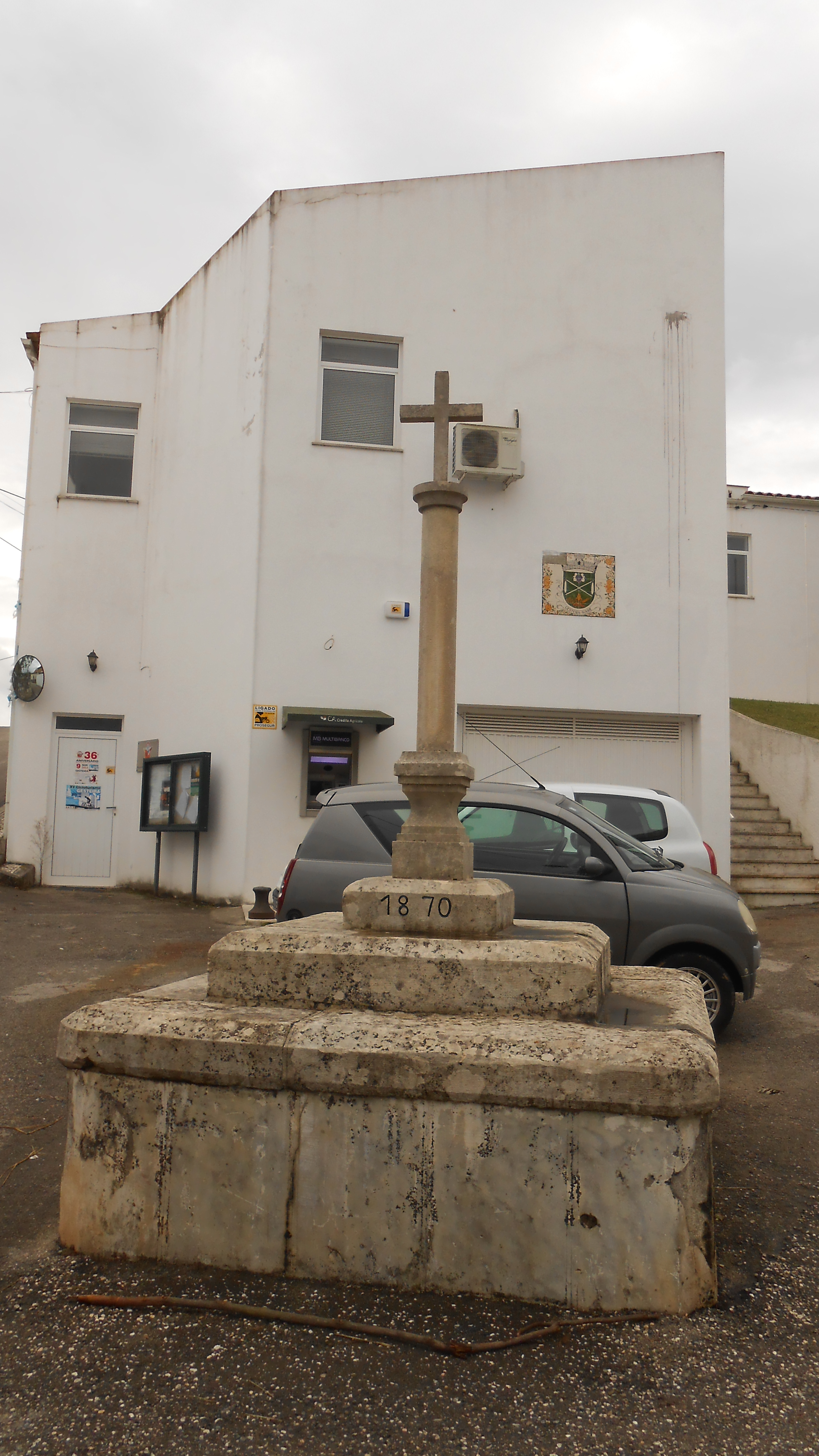 Administration building of the Gesteira parish, municipality of Soure, Coimbra district, Portugal, in front the parishes wayside stone cross.